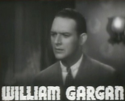 Cropped screenshot of William Gargan from the trailer for the film Black Fury.